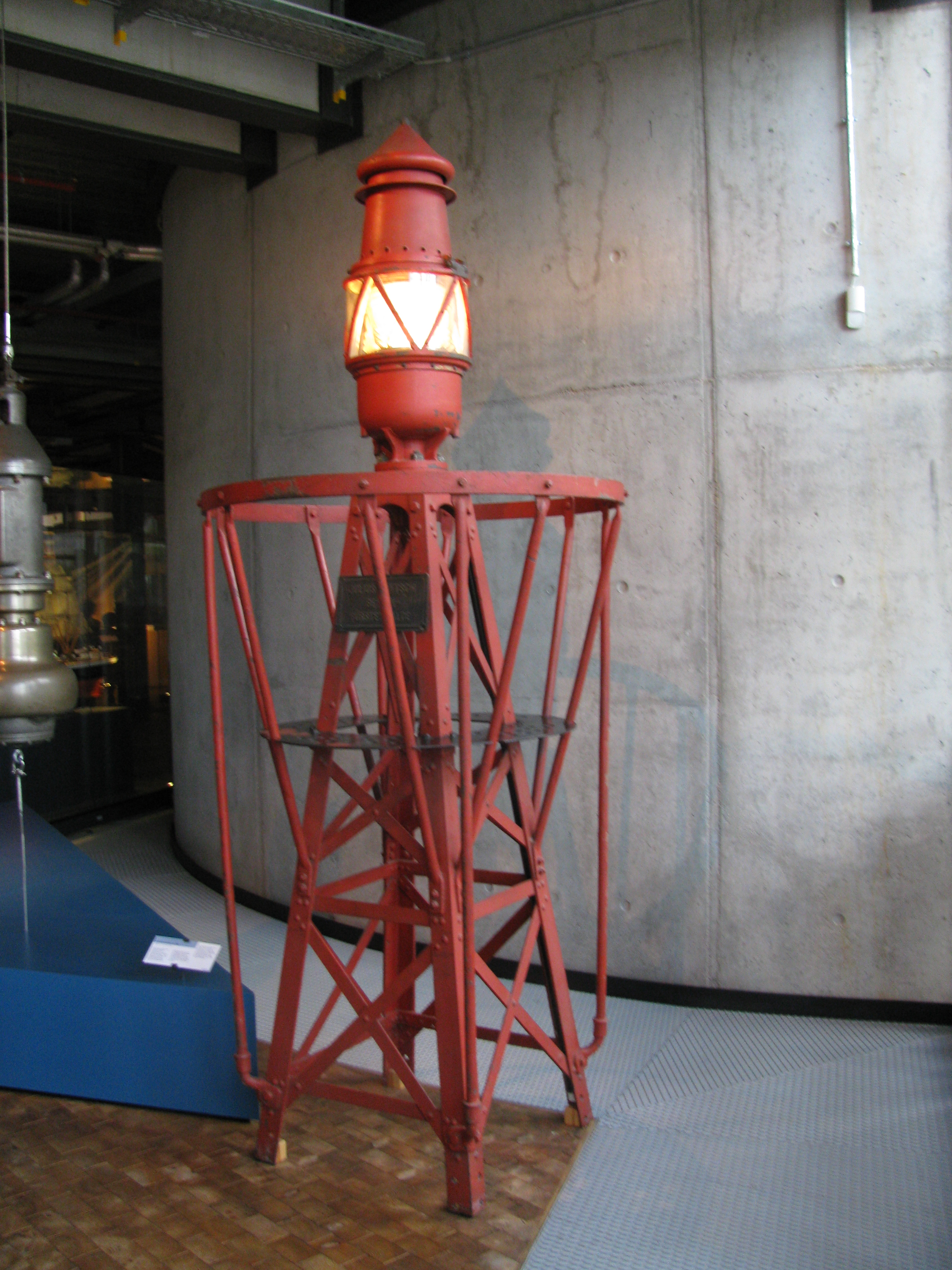 Light buoy by Julius Pintsch